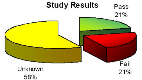 Results of testing shear rams. Piechart from p.3 in MINI SHEAR STUDY for U.S. Minerals Management Service, Requisition No. 2-1011-1003, December 2002.